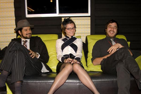 Picture taken at cd's release party.